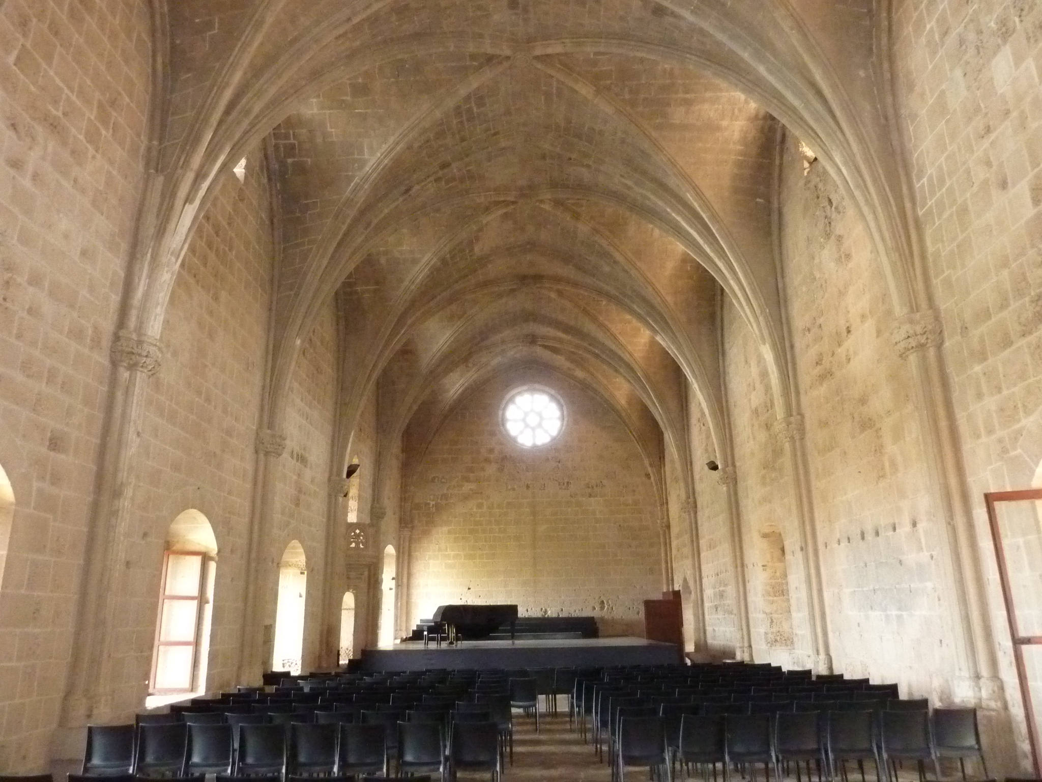 Bellapais Monastery - Refectory